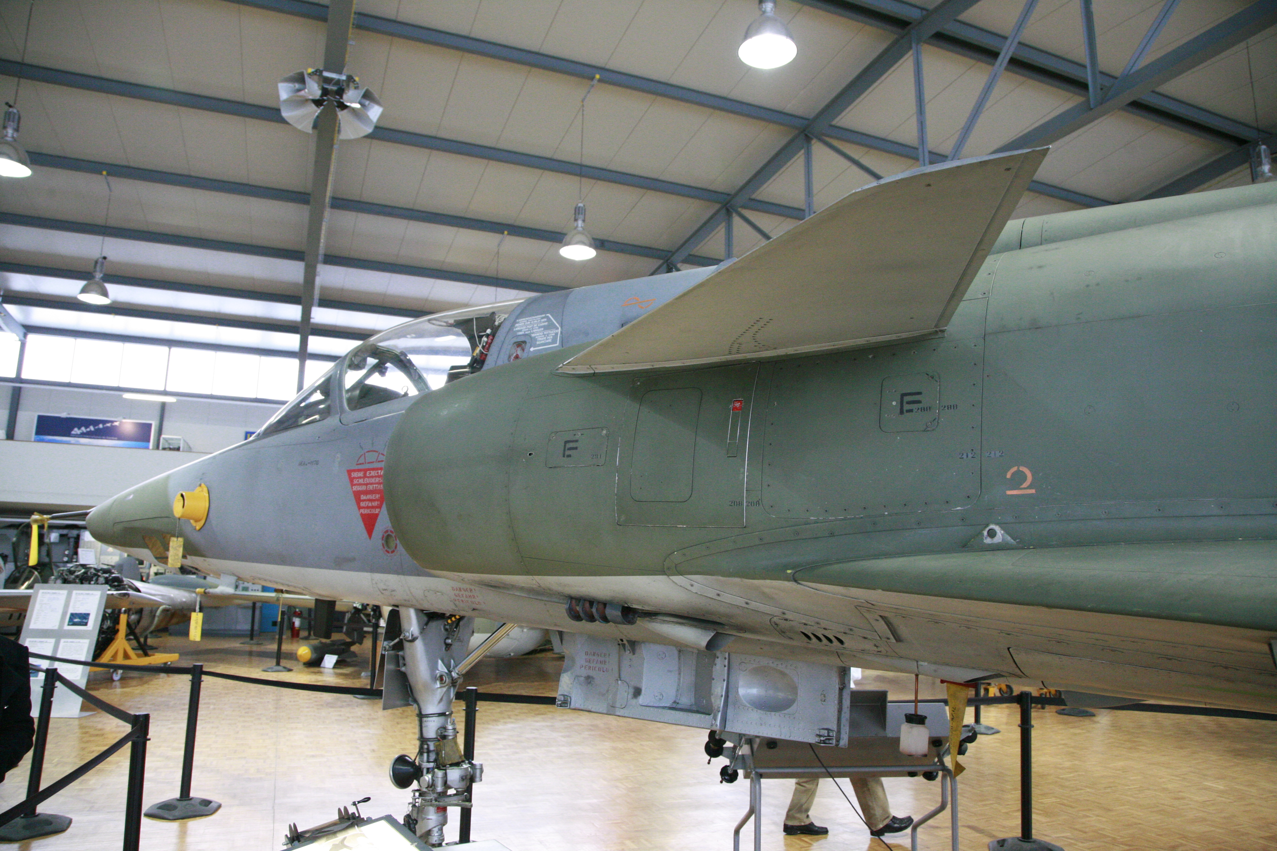 Dassault Mirage III of the Swiss Air Force, on display at Payerne Airbase.